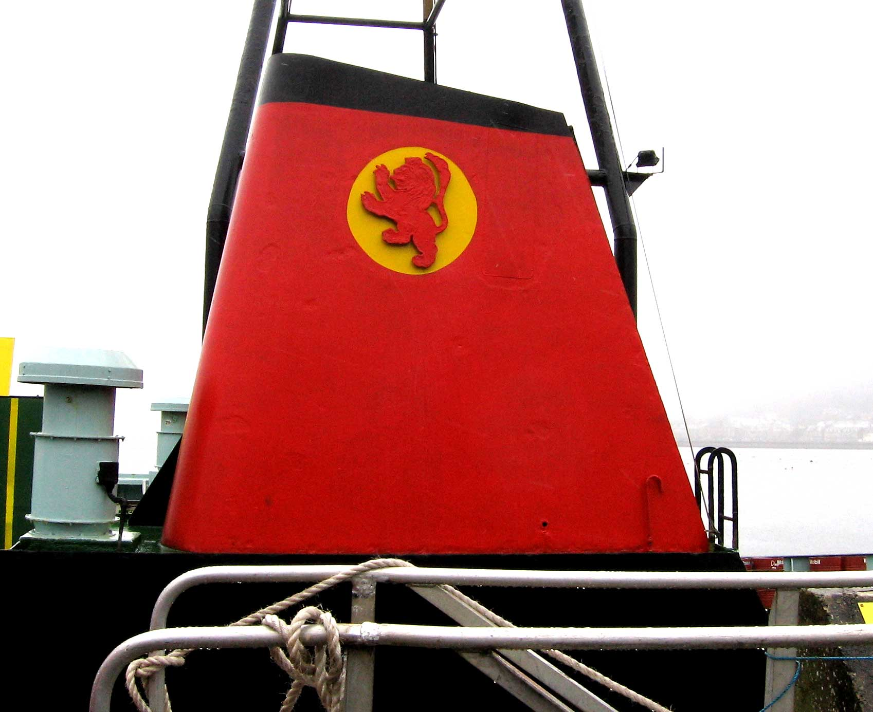 The Caledonian MacBrayne logo shown on the funnel of MV Juno.